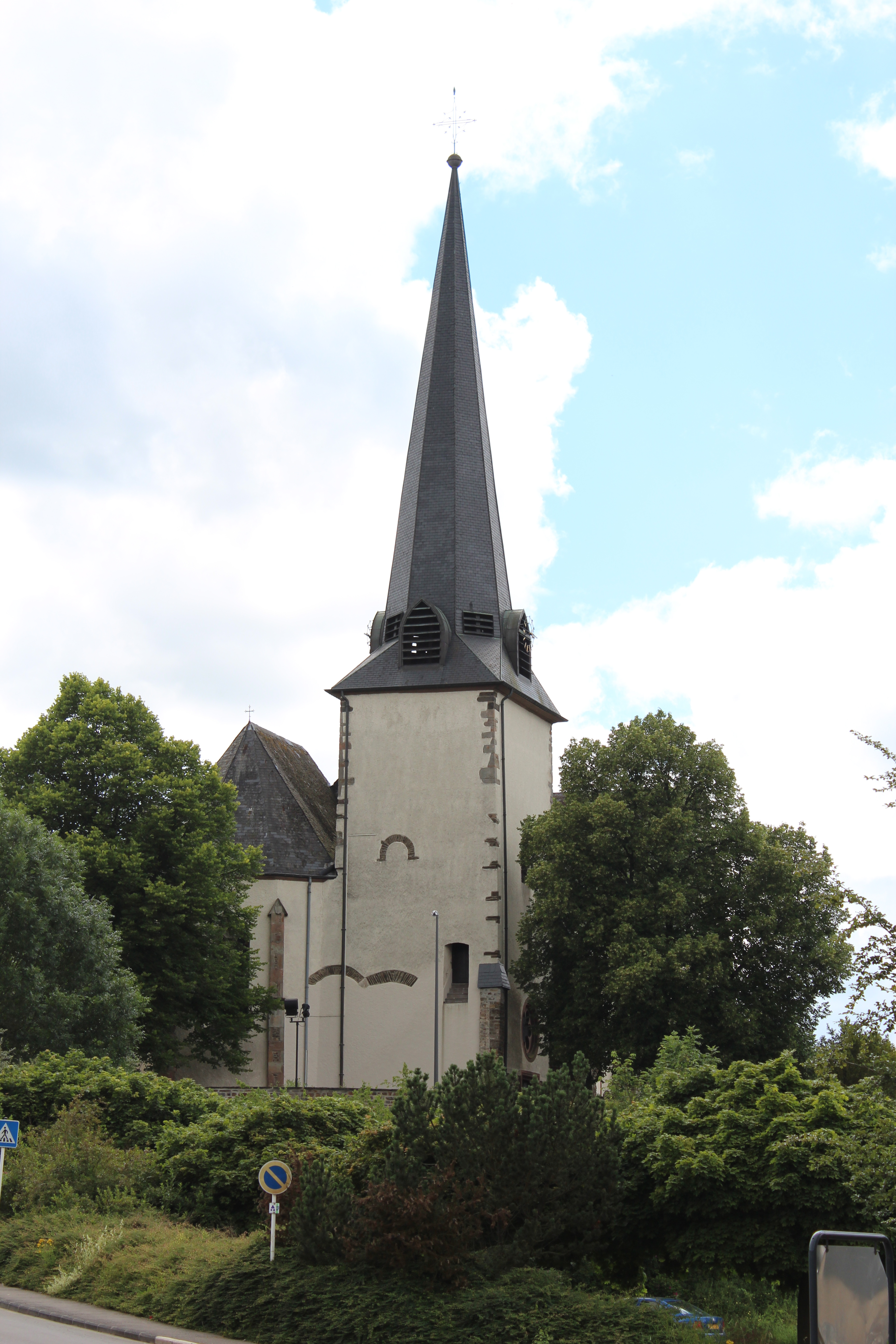 église Saints-Pierre-et-Paul Niederwiltz, church tower